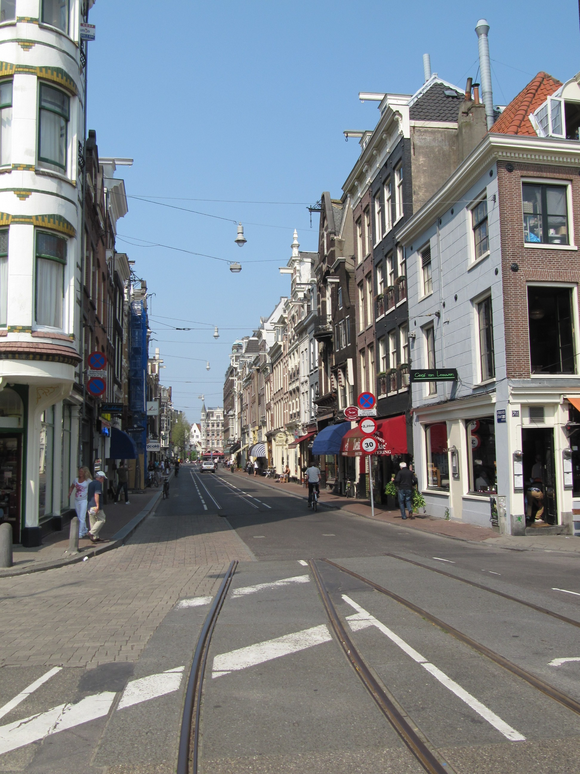 Utrechtsestraat (Amsterdam)